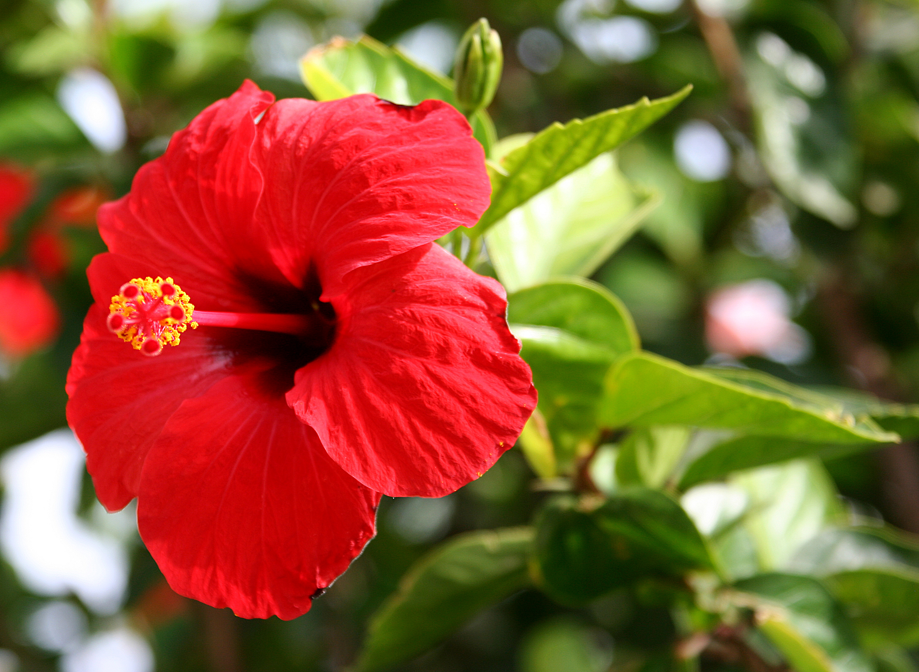 Hibiscus 'Brilliant'